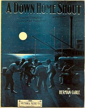 "Down Home Shout" (Characteristic Slow Drag Two Step) sheet music cover, 1907